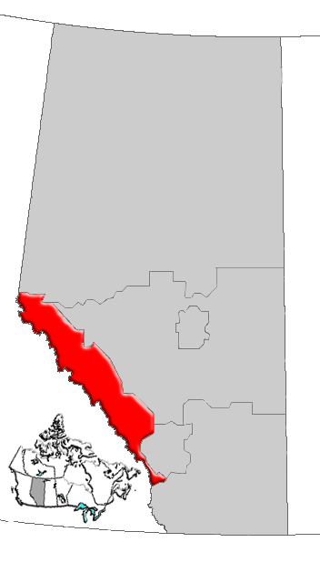 Map of Rockies Region, Alberta, Canada